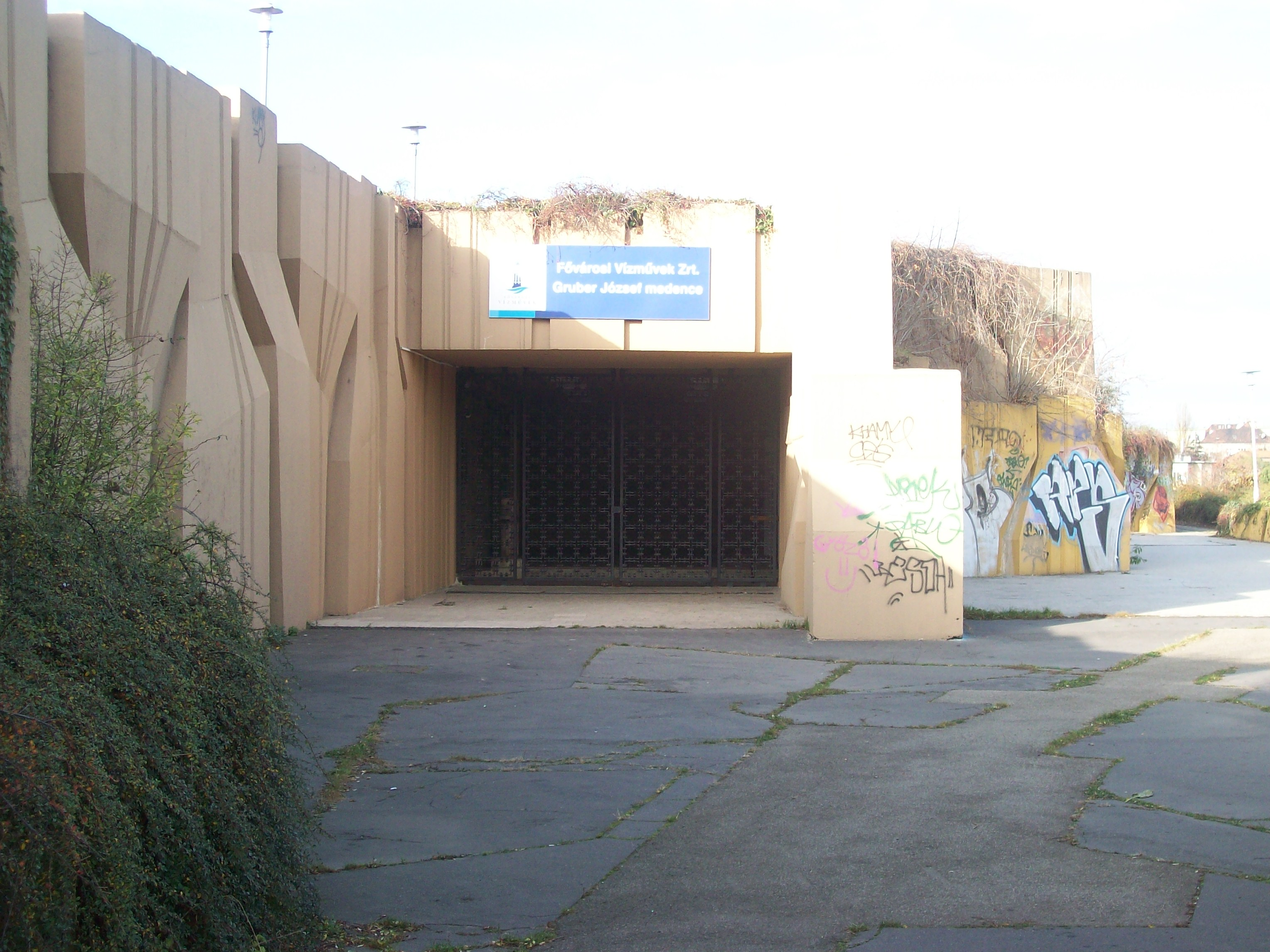 Entrance to the water reservoir on Gellért Hill, Budapest